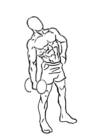 an exercise of abs